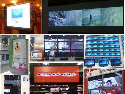 Digital signage